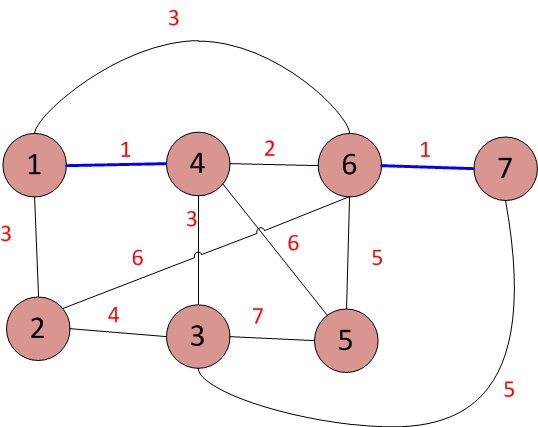 step 2 for debug Kruskal